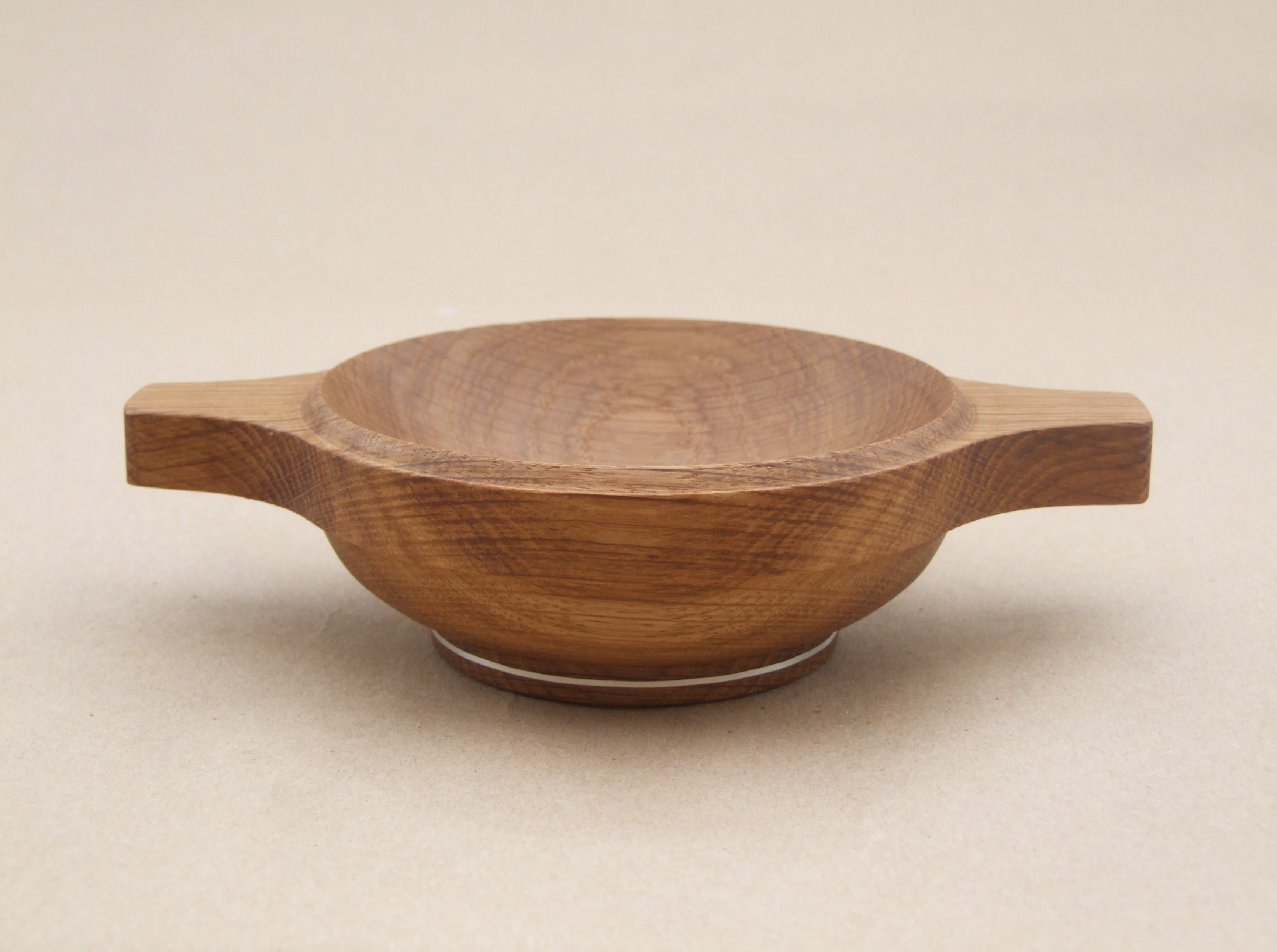 Scottish wooden quaich with silver inlay. 125 mm in diameter it was turned from a single piece of Moray oak in 2009 by Stewart McCarroll.